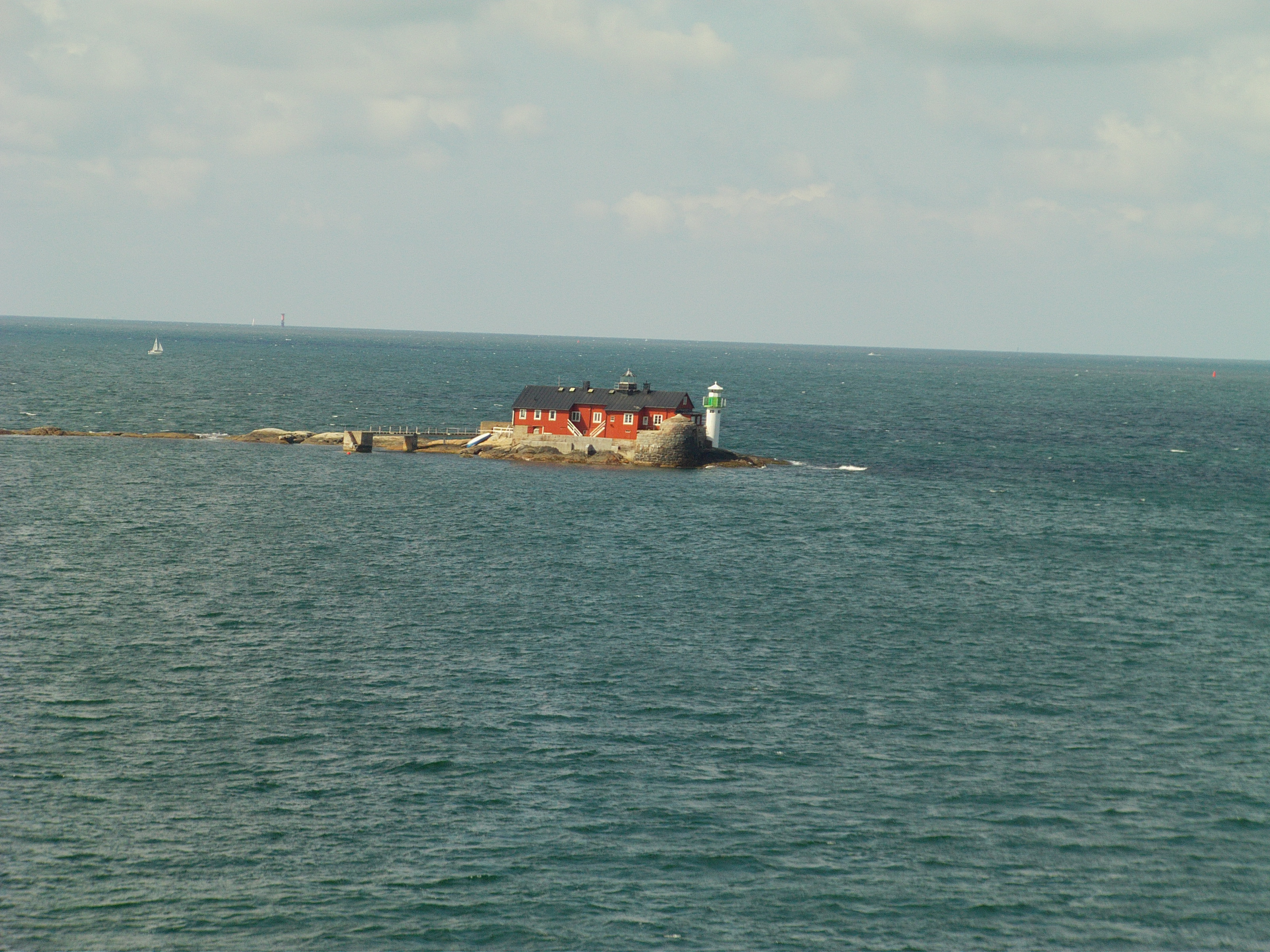 The island Böttö with a traditional lighthouse is part of the southern archipelago of Göteborg. Böttö is situated west of Galterö in Styrsö Parish, Askim Hundred, Göteborg Municipality, Västergötland, Västra Götaland County, Sweden.